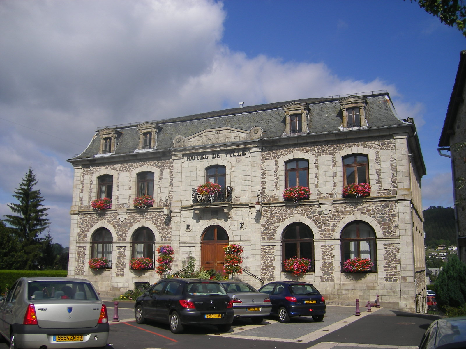 Riom-ès-Montagnes - town hall